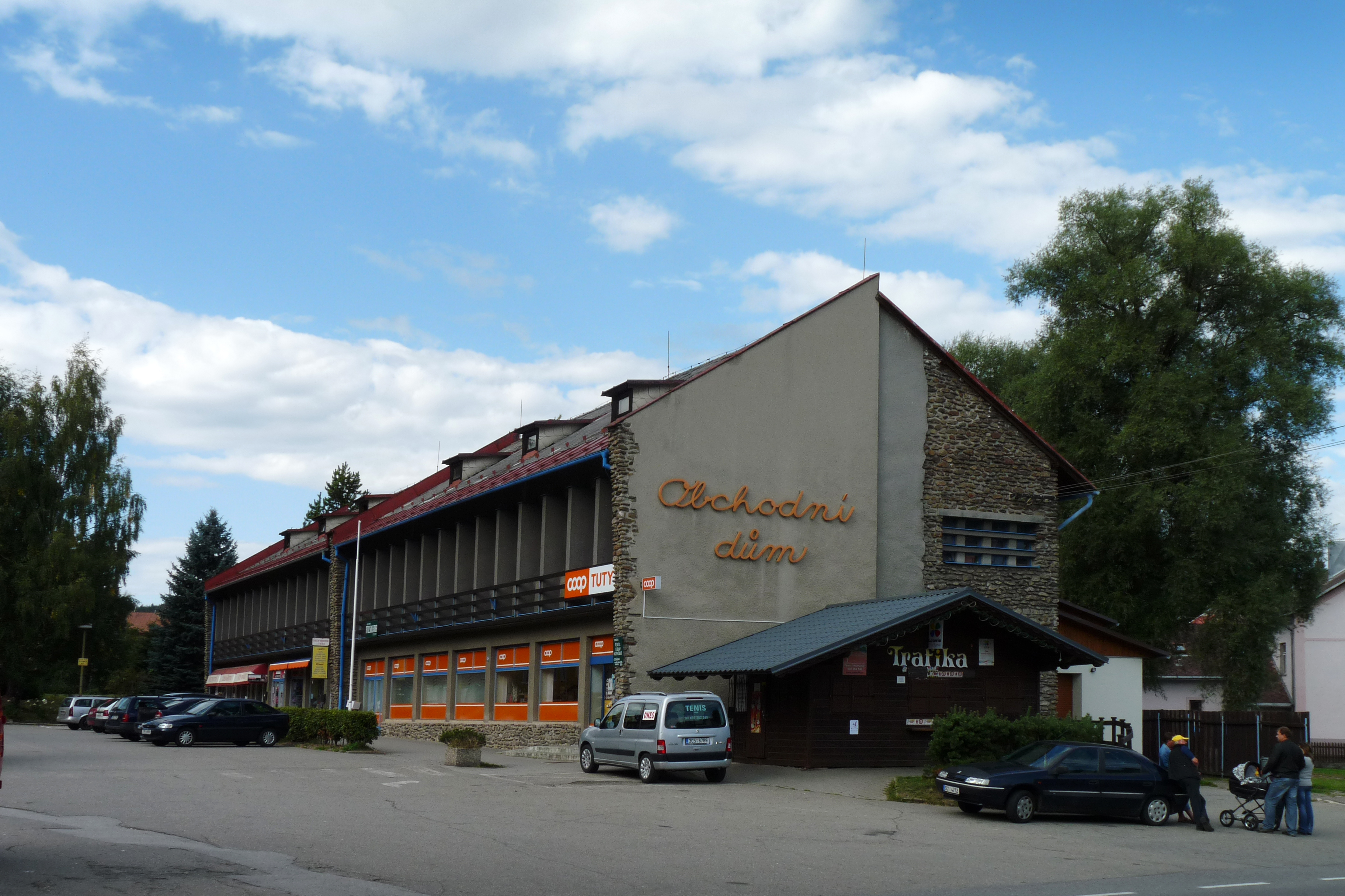 Supermarket in the village and municipality of Zdíkov in Prachatice District, Czech Republic. Česky: Obchodní dům v obci Zdíkov v okrese Prachatice.